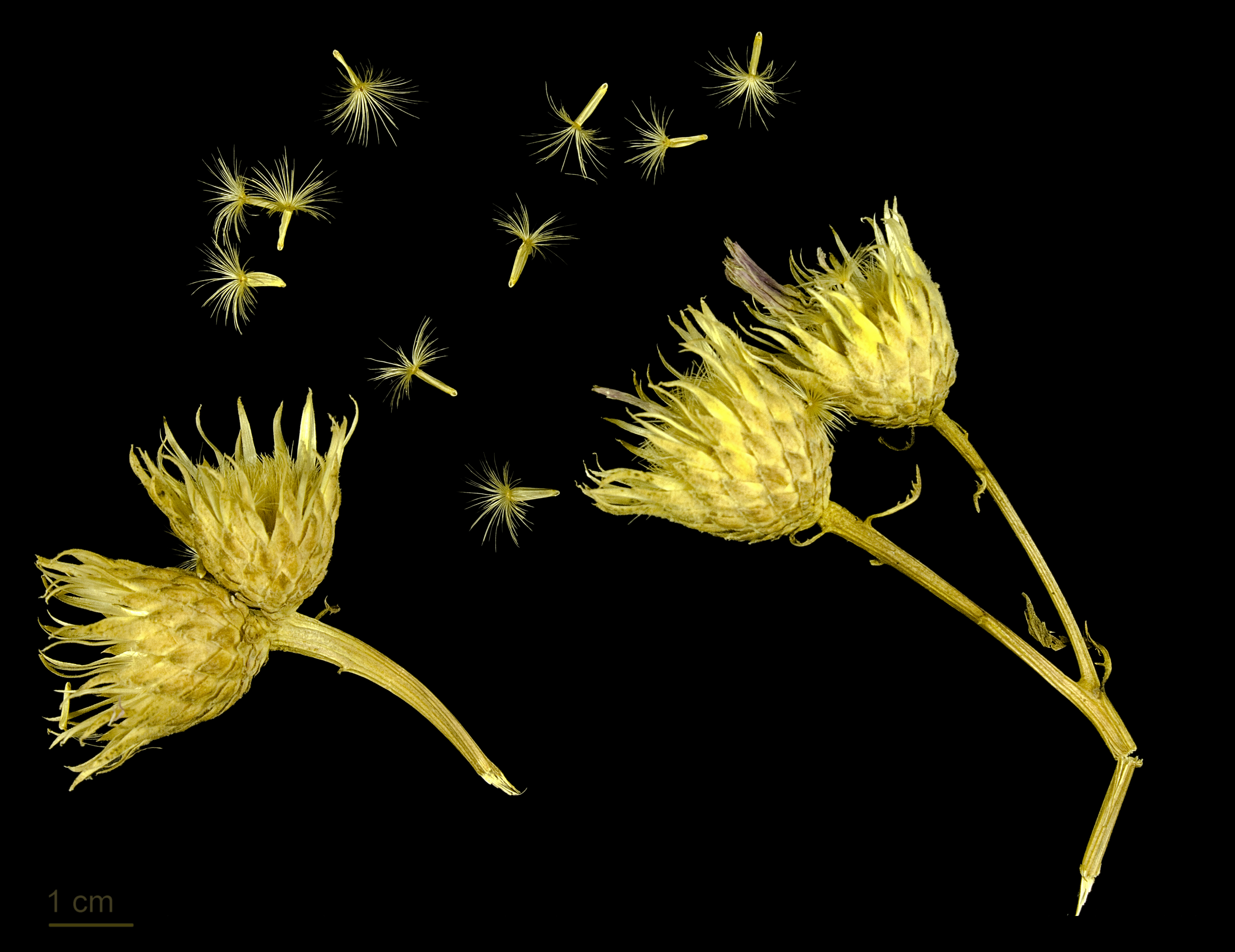 Saw-wort , fruits and seeds